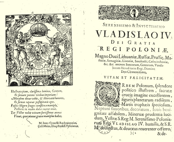 A page from an armorial "Orbis Poloni" written by Simon Okolski (1642, Krakow)